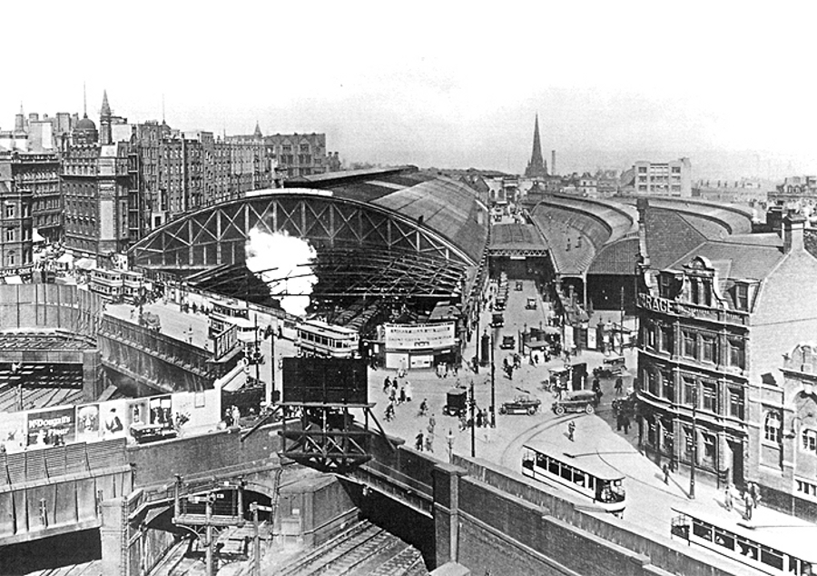 The Victorian station at New Street, Birmingham, UK. The original LNWR station (opened in 1854) is on the left, while the Midland Railway extension (opened 1885) is on the right, the access road in between them is Queen's Drive. In the foreground is the corner of Navigation Street and Hill Street.